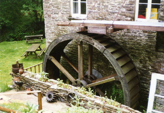 Tintagel: Trevillett Mill, Rocky Valley. Restored overshot waterwheel with cast iron shrouds by Oatey & Martyn of Wadebridge. There were two overshot wheels here in the 19th century